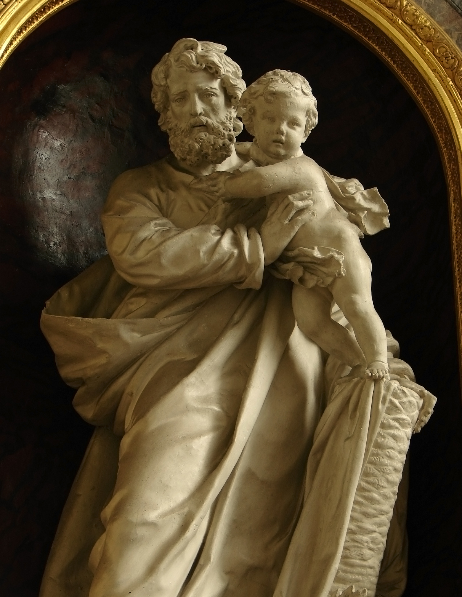 Statue of Saint joseph, by the Duthoit brothers, 19th century,in Amiens Cathedral.